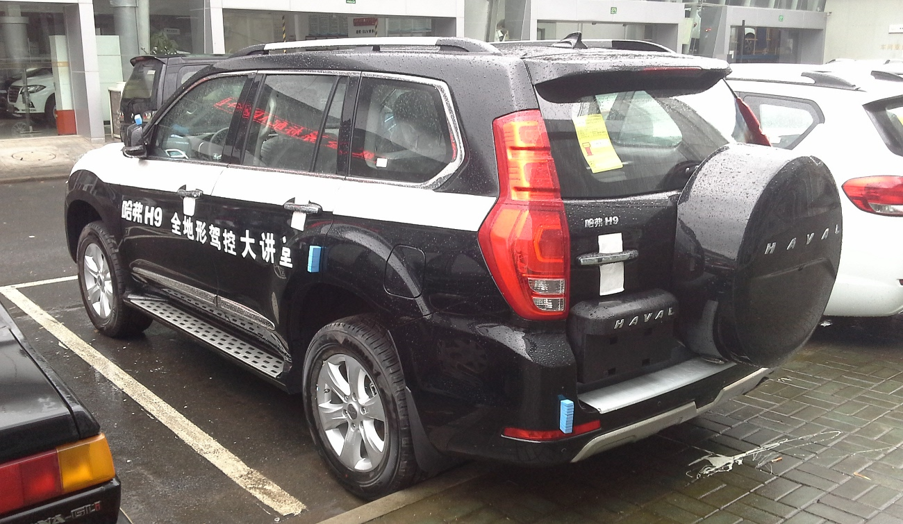 Haval H9 photographed in Shanghai, China.